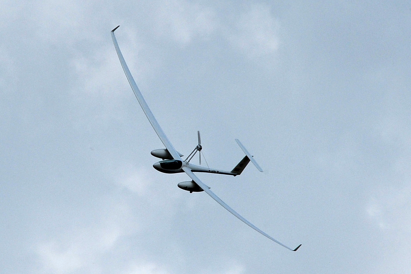 The Antares aircraft photographed in flight during a flight demonstration